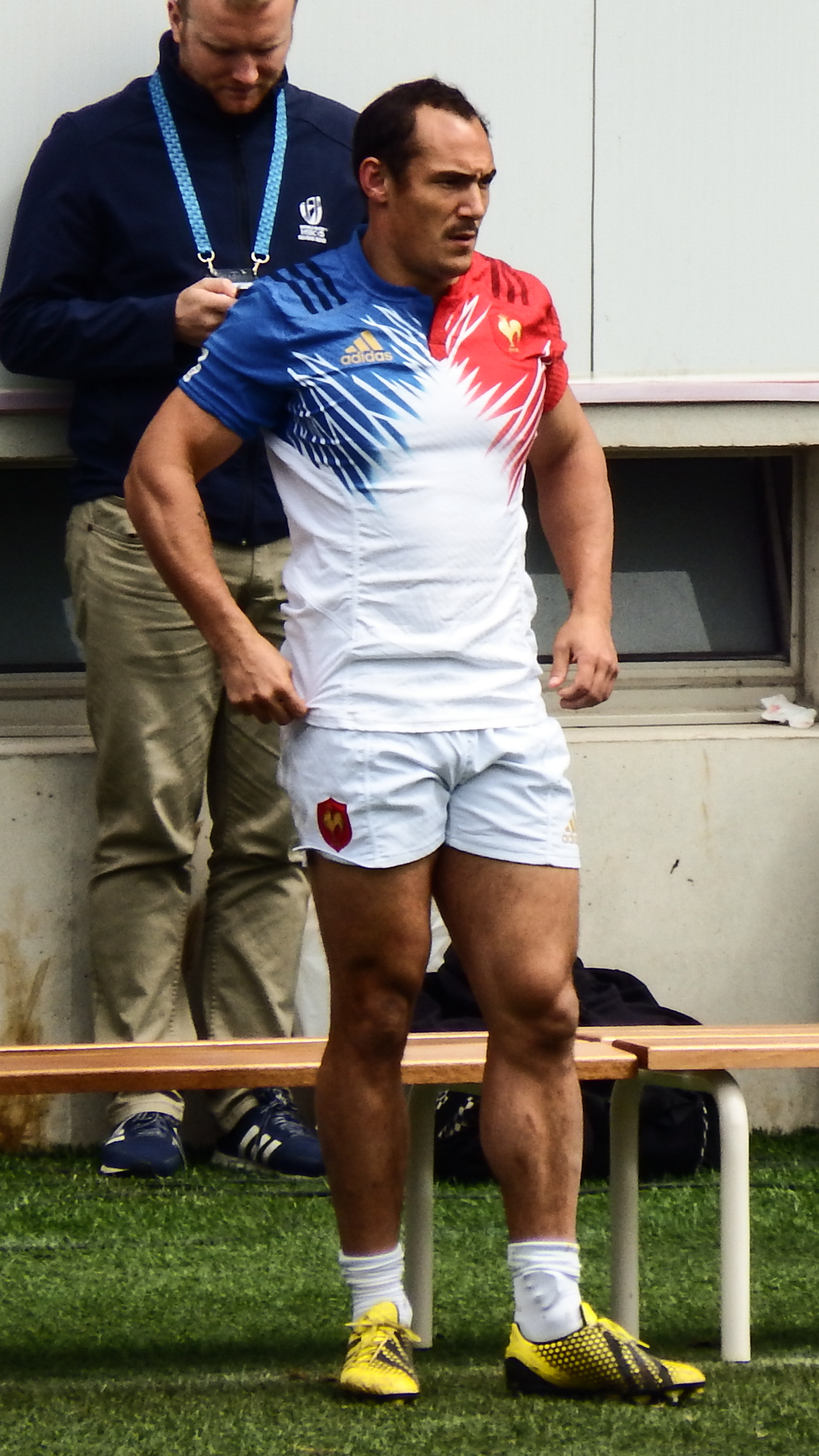 Paris Sevens 2016 — 15 May 2016, stade Jean-Bouin. Match between: France — Kenya